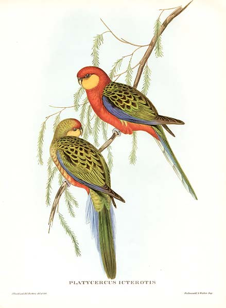 Platycercus icterotis